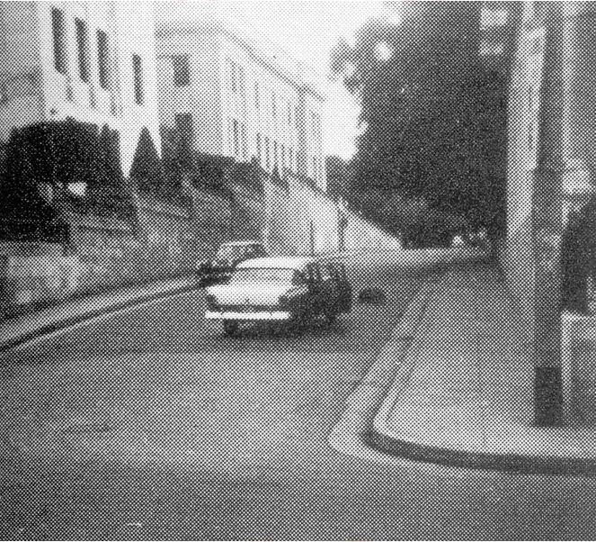 Havana Presidential Palace Attack_Echevarias car (1957)